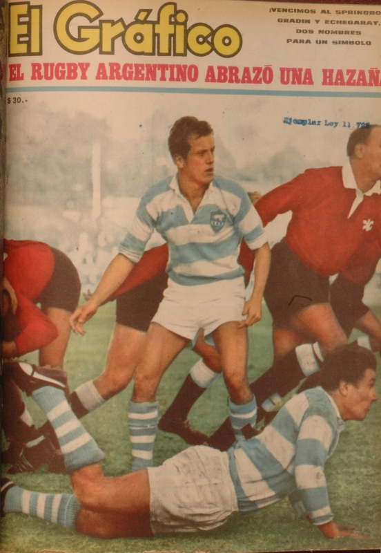 Los Pumas playing a match in 1965. Players Etchegaray and Gradín are pictured on the cover of El Grafico sports magazine.